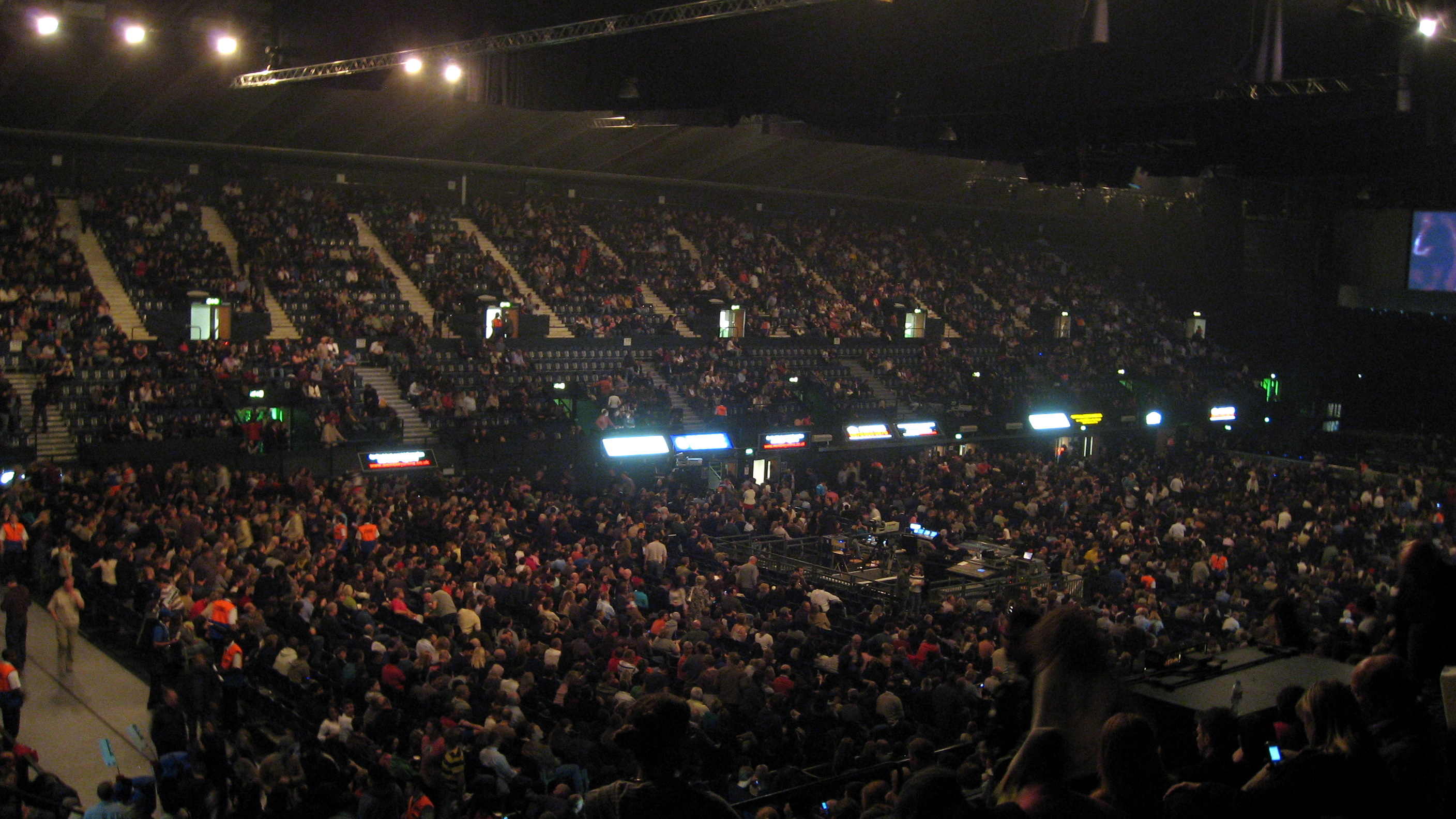 The Police